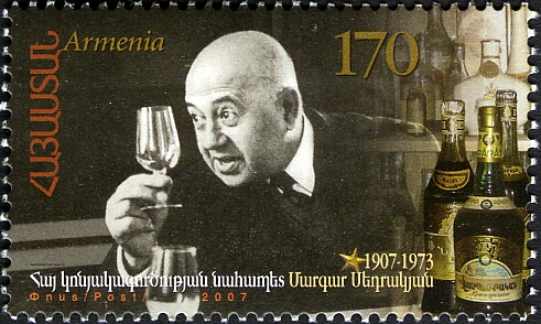 Stamp of Armenia : Margar Sedrakian, Armenian Cognac Industry, Scott #758